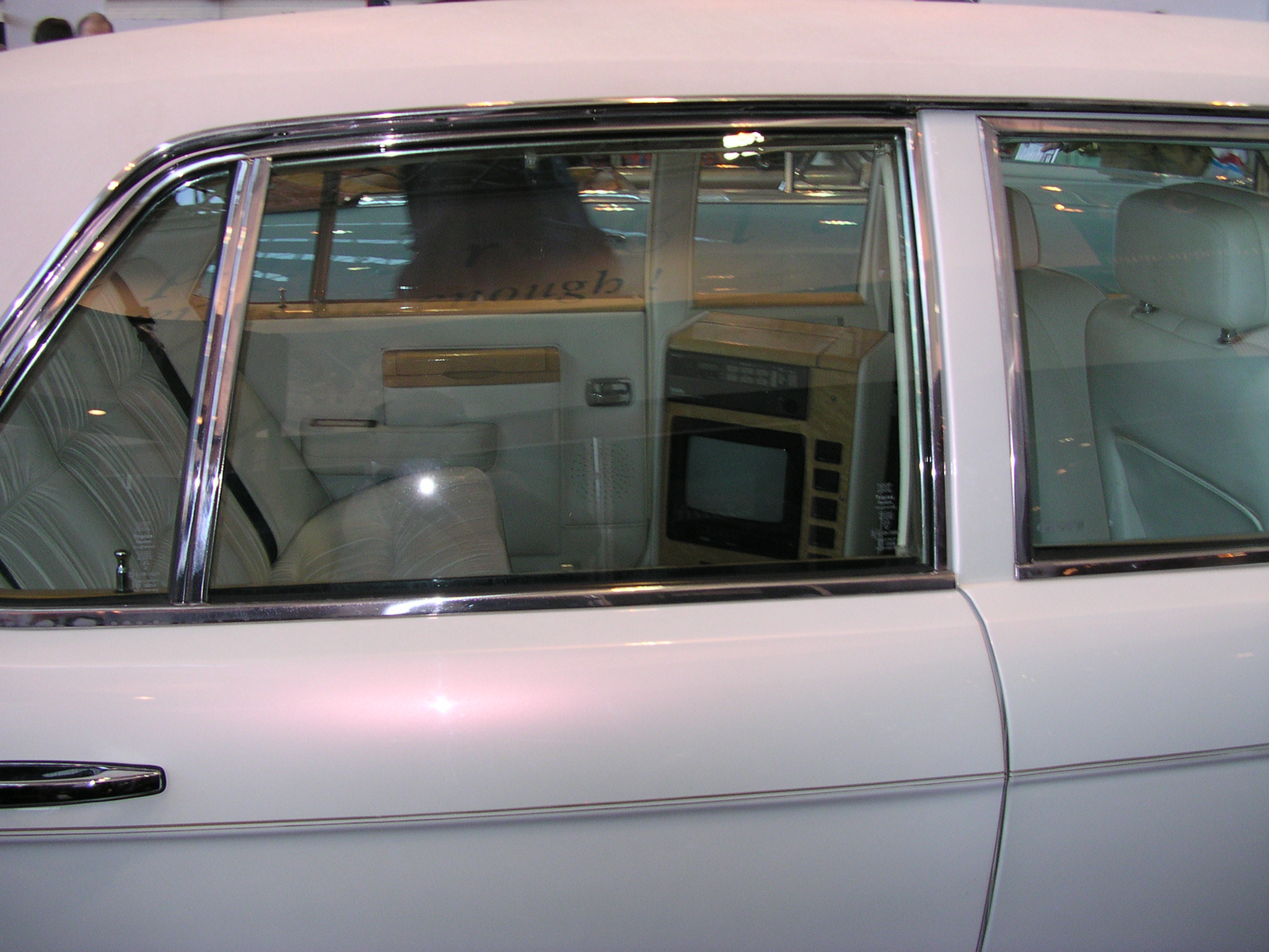 Essen Techno-Classica 2007, Rolls-Royce Silver Spur long